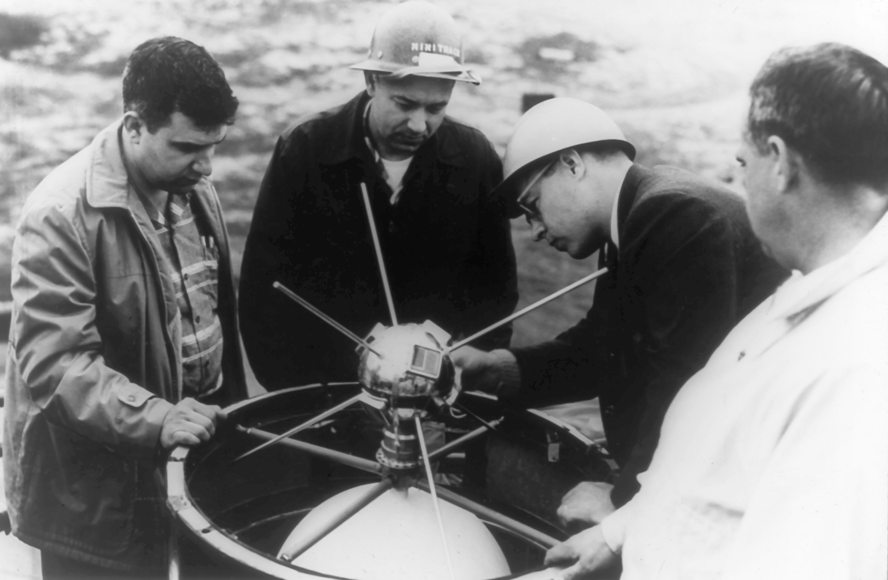 A team of Vanguard I scientists mount the satellite in the rocket.